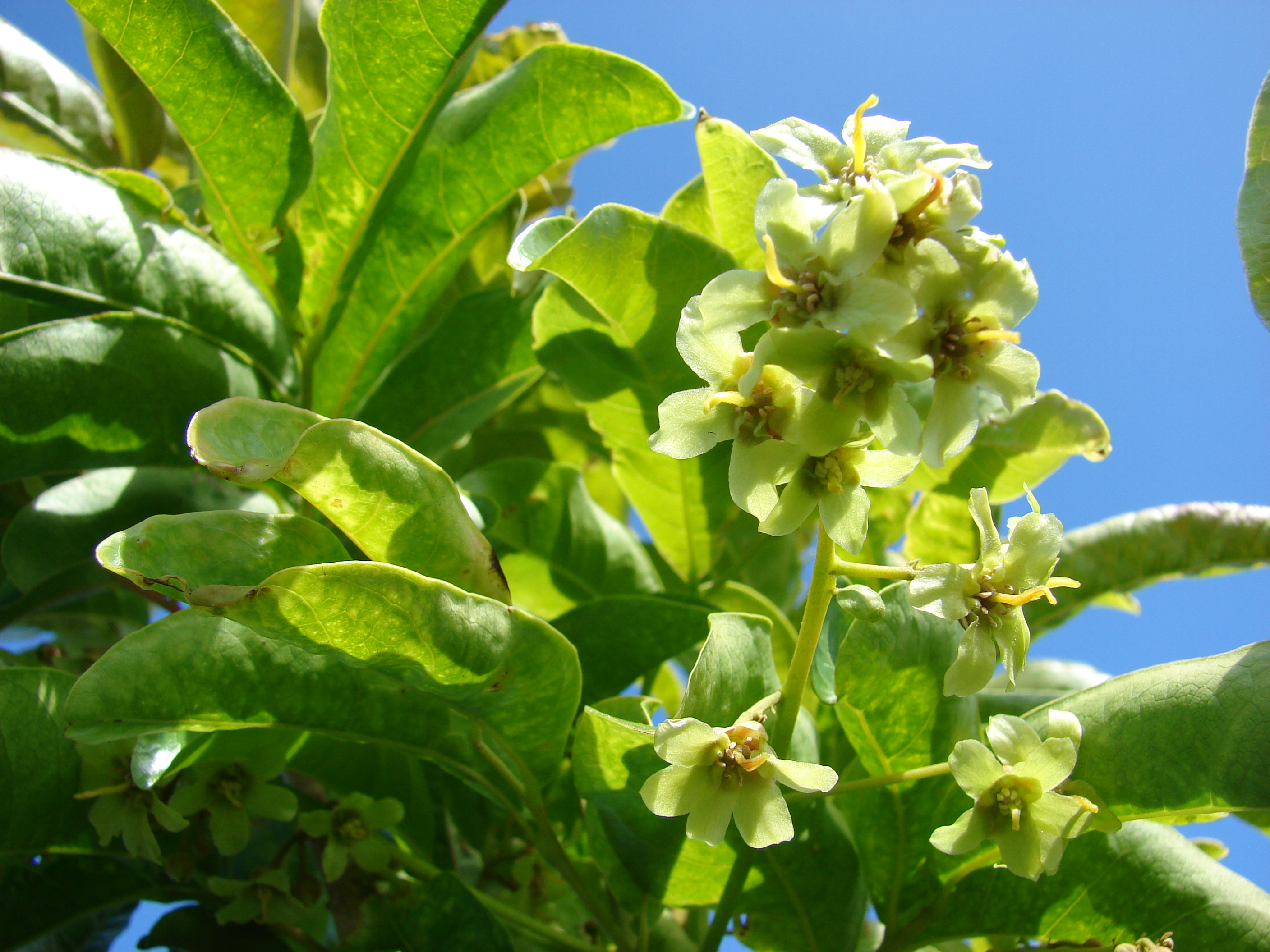 Harpullia pendula (flowers). Location: Maui, Eddie Tam Makawao